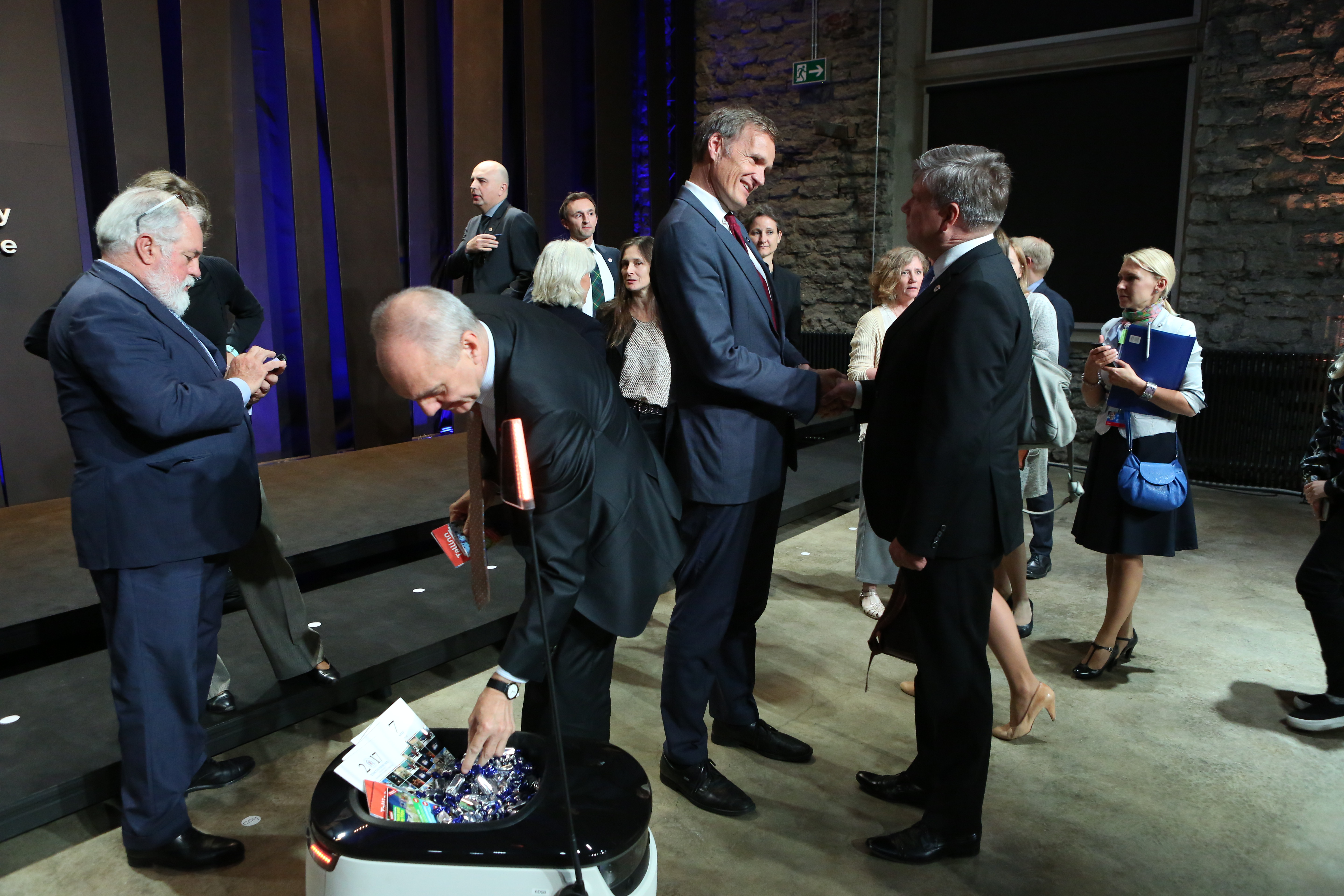 Starship robot carrying sweets and goods